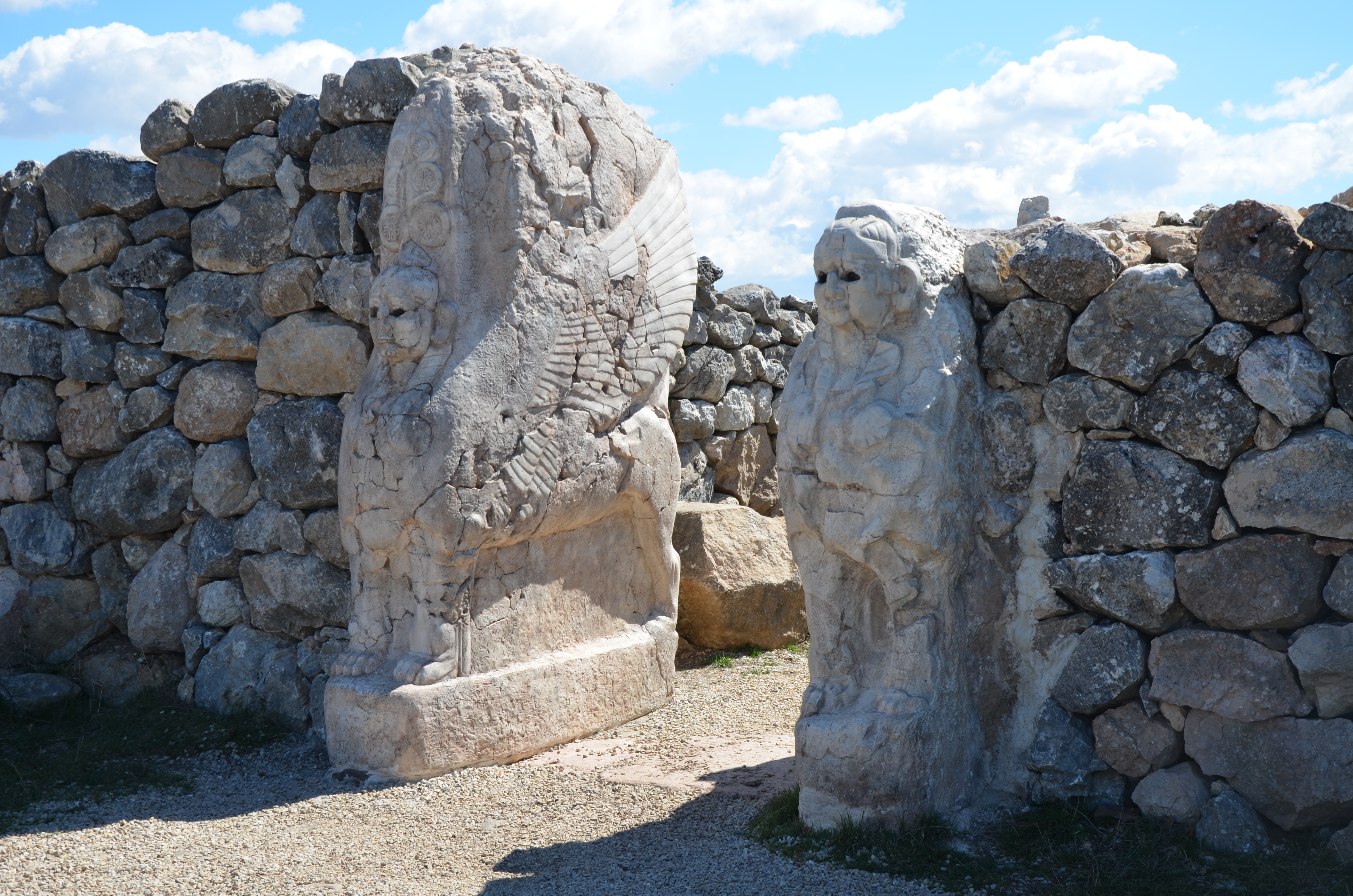 The Sphinx Gate standing above the Yerkapi Rampart, Hattusa, the capital of the Hittite Empire in the late Bronze Age, Boğazkale, Turkey